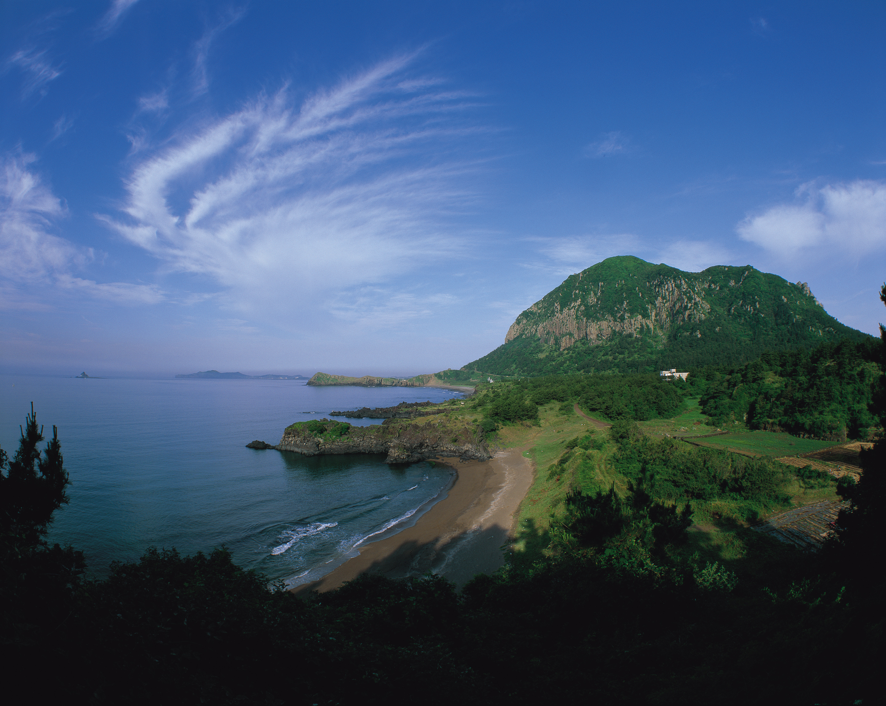 Jeju-do, a Special Self-Governing Province is the only special autonomous province of Korea, situated on and coterminous with the country's largest island.